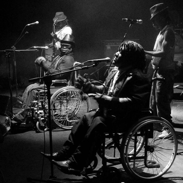 Mbongwana Star performing at La Pelanda at the Museum of Contemporary Art of Rome (MACRO) in Testaccio in Rome, Italy on October 30, 2015